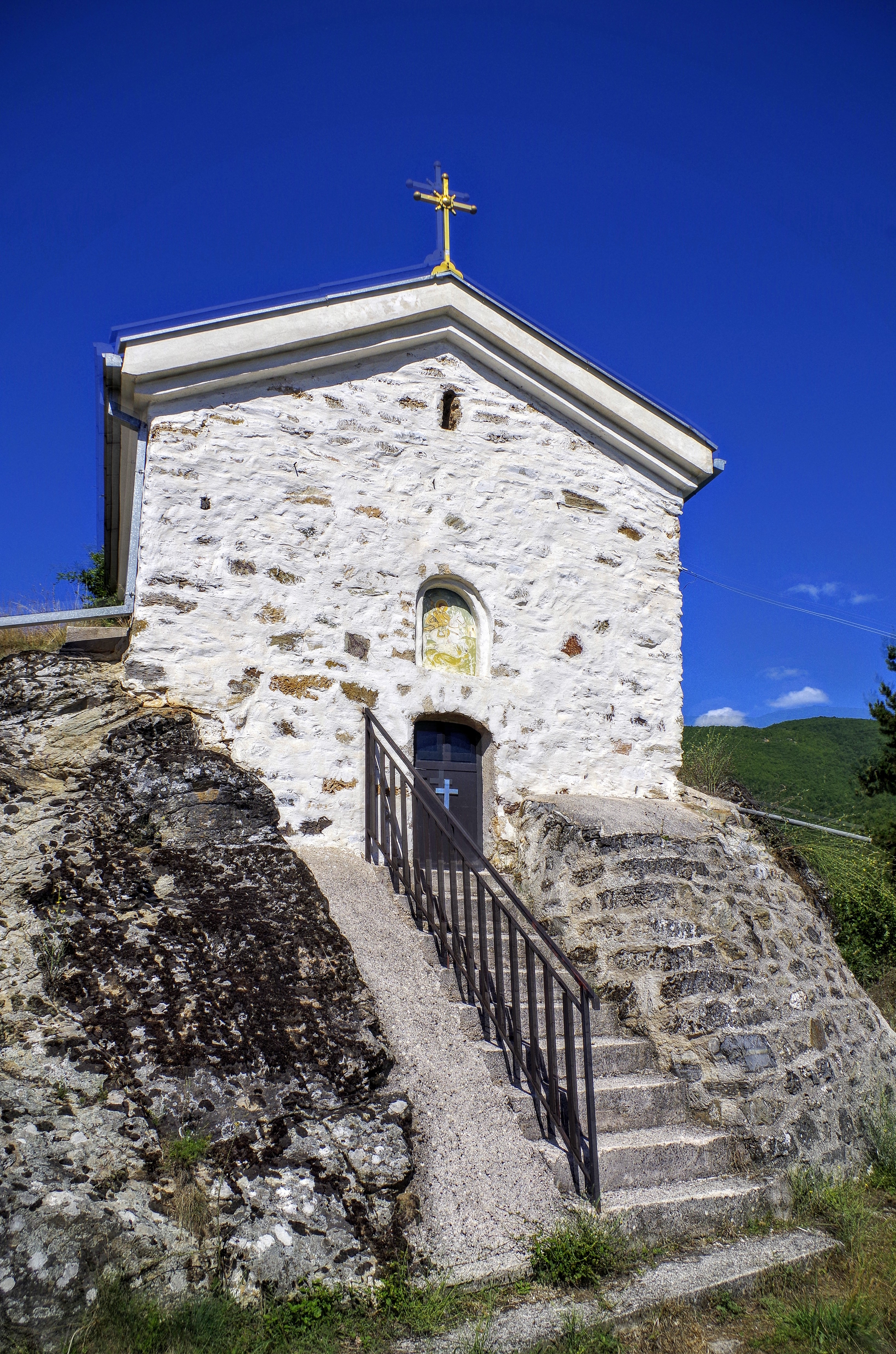 View of the St. George's Church in the village Ozdoleni